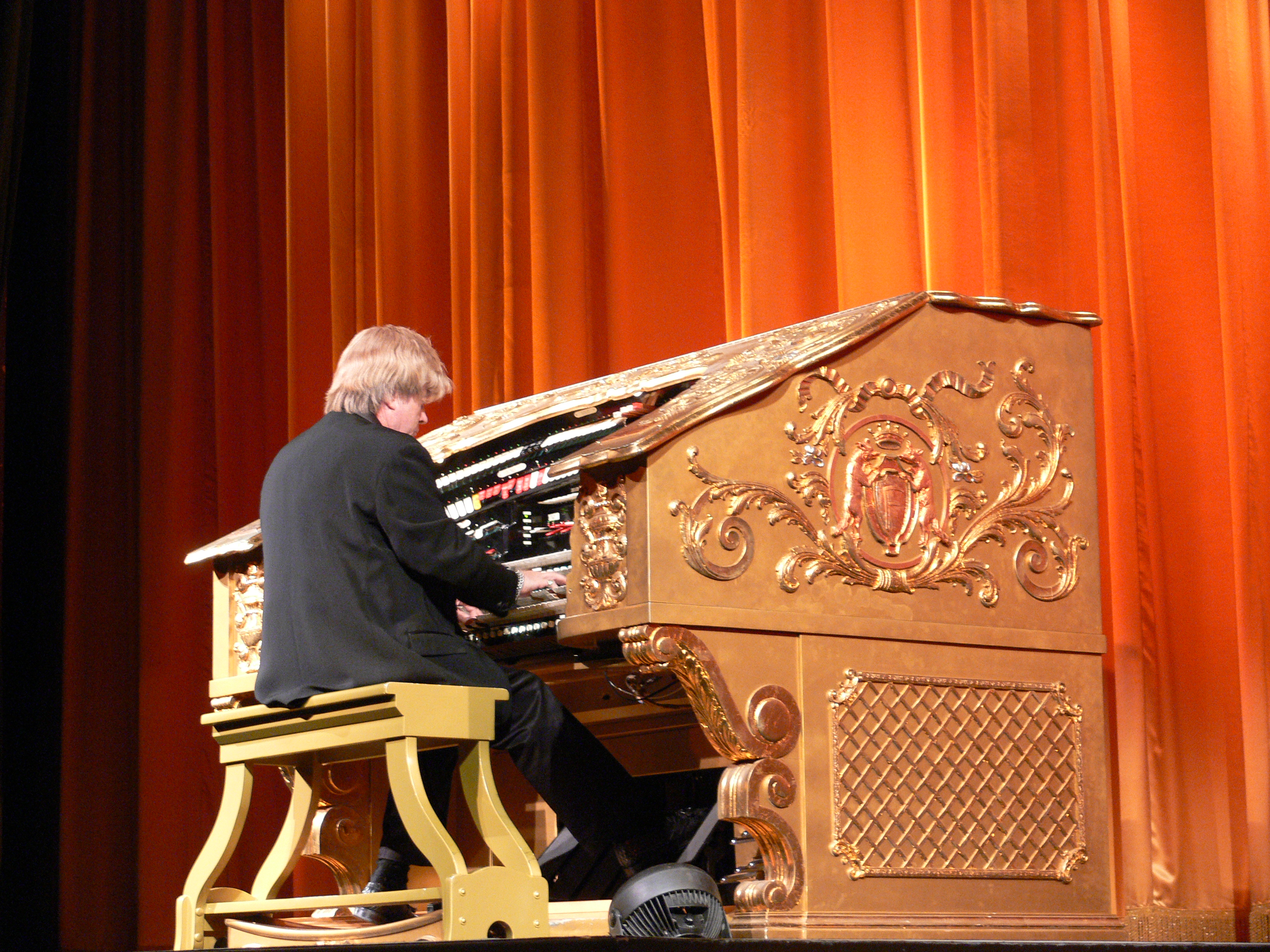 El Capitan Theater, 6838 Hollywood Boulevard, Los Angeles, California A staff organist plays the 4/37 Mighty Wurlitzer (originally installed in 1929 at the San Francisco Fox Theatre) before the pre-movie show starts.